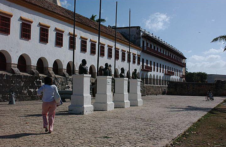 NAVAL MUSEUM of the CARIBBEAN — housed in an old JESUIT COLLEGE in Cartagena, Colombia.